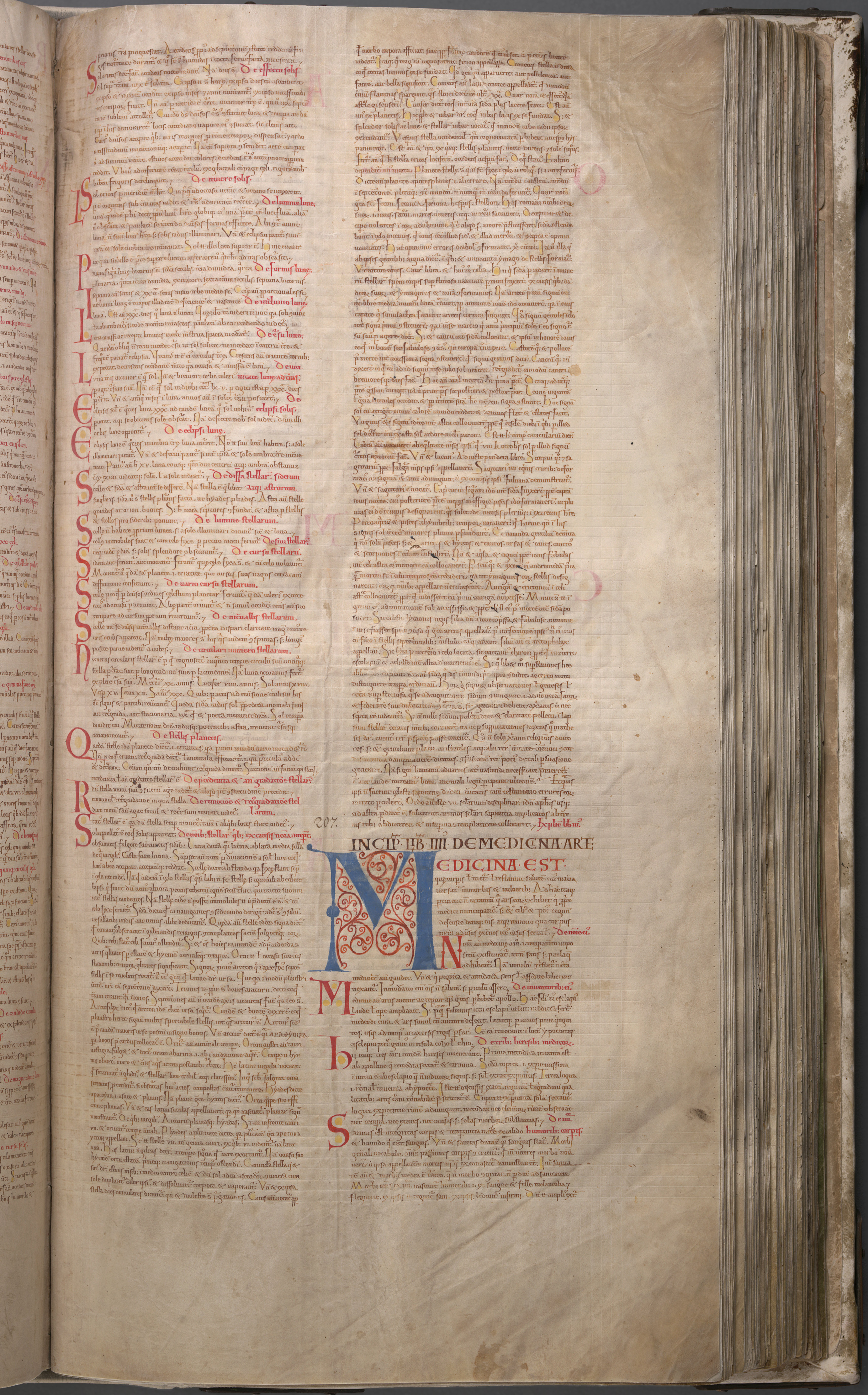 Giant Book) is the largest extant medieval manuscript in the world. It is also known as the Devil's Bible because of a large illustration of the devil on the inside and the legend surrounding its creation. It is thought to have been created in the early 13th century in the Benedictine monastery of Podlažice in Bohemia (modern Czech Republic). It contains the Vulgate Bible as well as many historical documents all written in Latin. During the Thirty Years' War in 1648, the entire collection was taken by the Swedish army as plunder, and now it is preserved at the National Library of Sweden in Stockholm, though it is not normally on display.